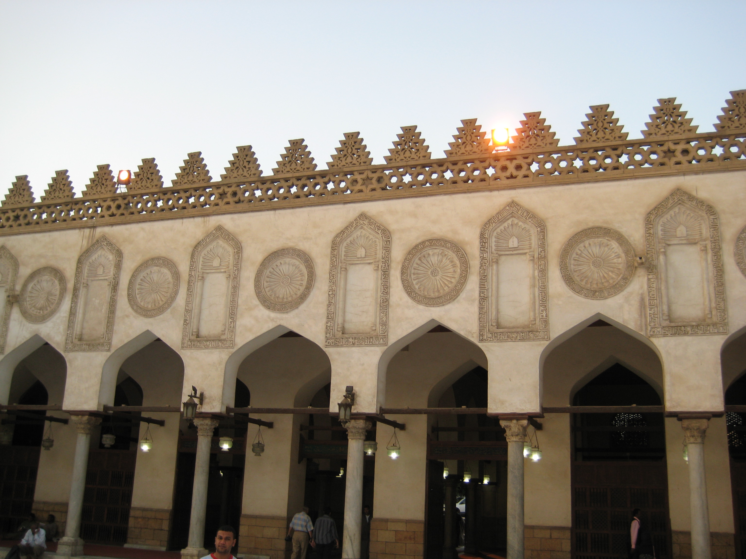 Stucco ornaments along interior wall of the courtyard of al-Azhar Mosque, Cairo, Egypt.